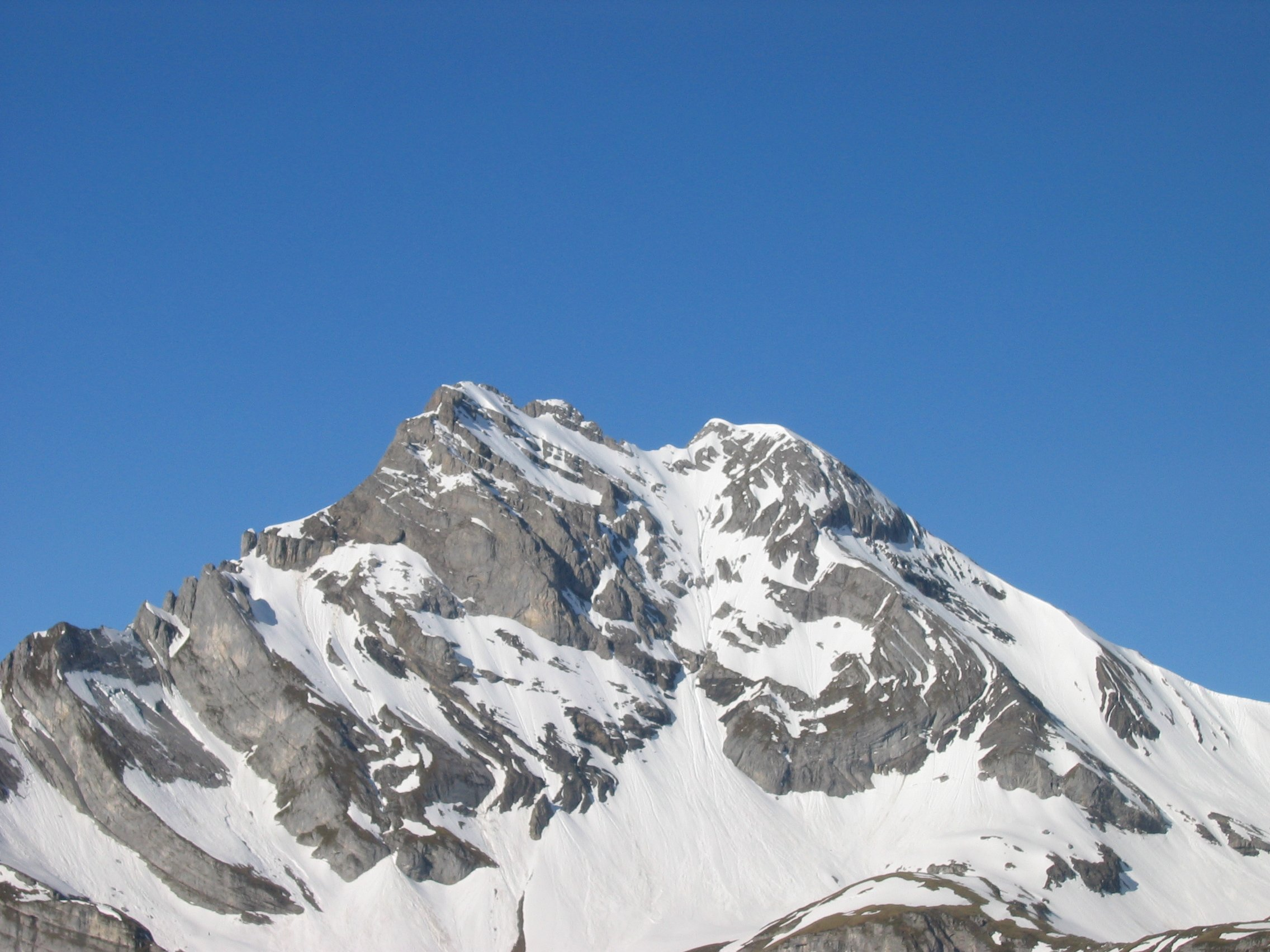 The Ortstock (alt 2716,5m) in the Glarus Alps, seen from Braunwald